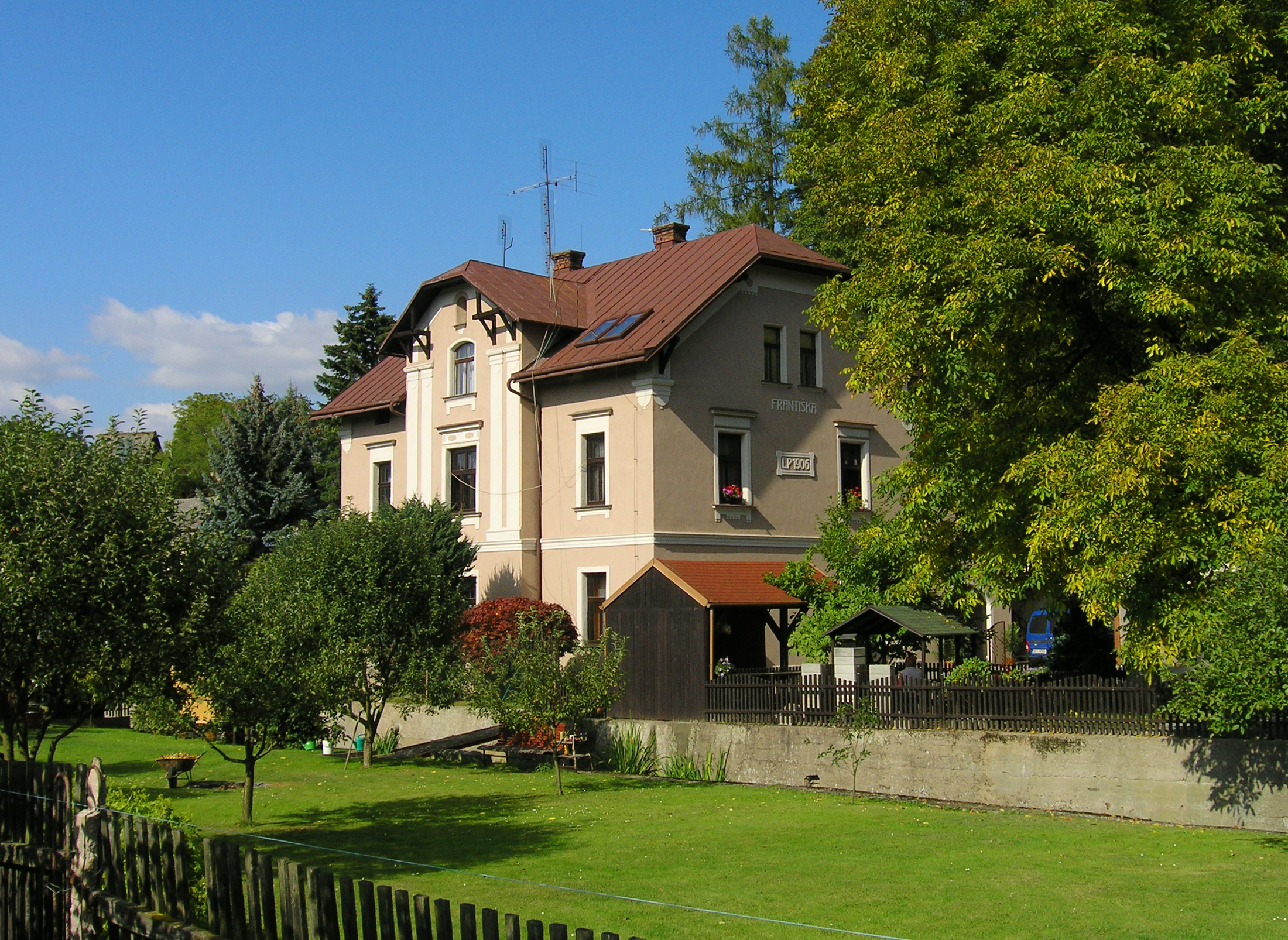 Villa in Březí, Czech Republic